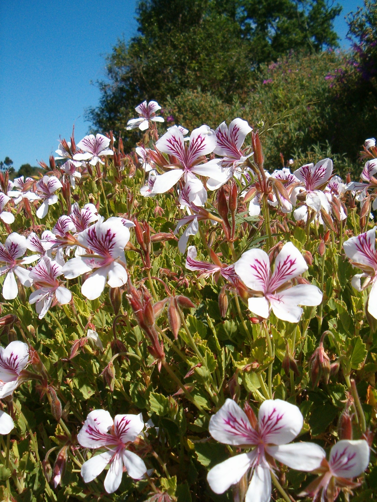 At Kirstenbosch National Botanical Gardens Genus Pelargonium